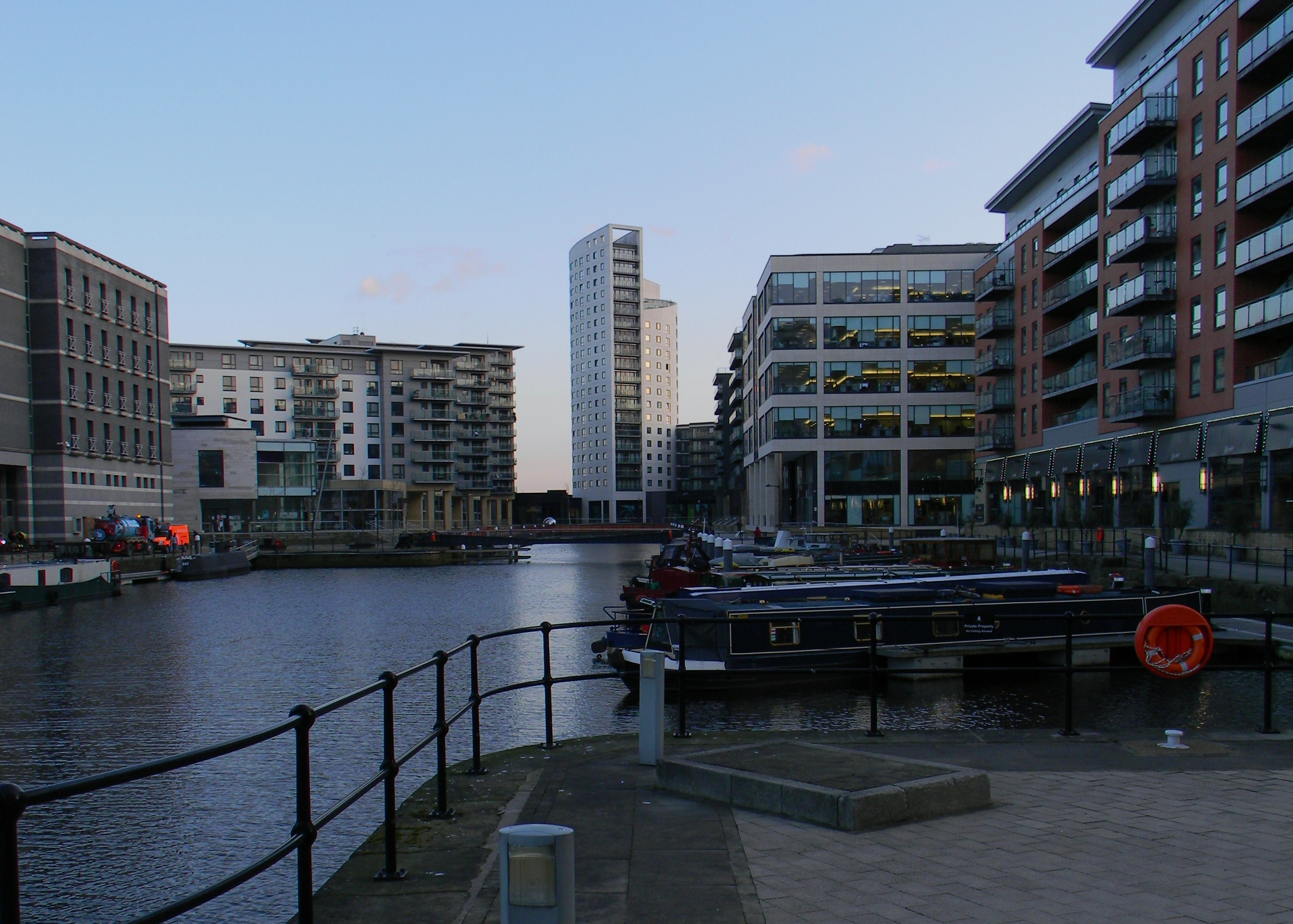 Clarence Dock Leeds, West Yorkshire, England, United Kingdom.